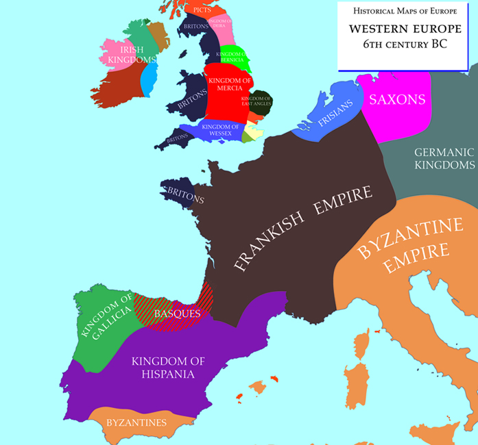 Historical Map of Europe. Around 6th Century AD. Political Map.